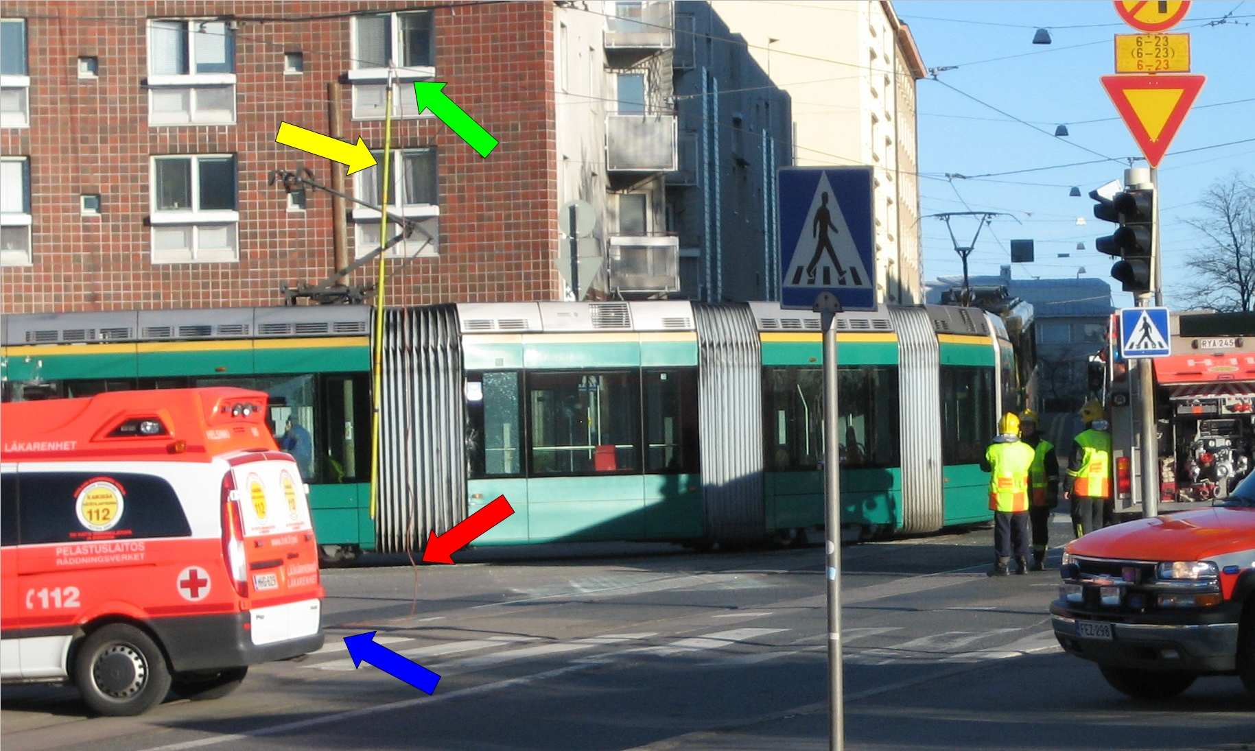 An emergency earth connection in a tram accident.